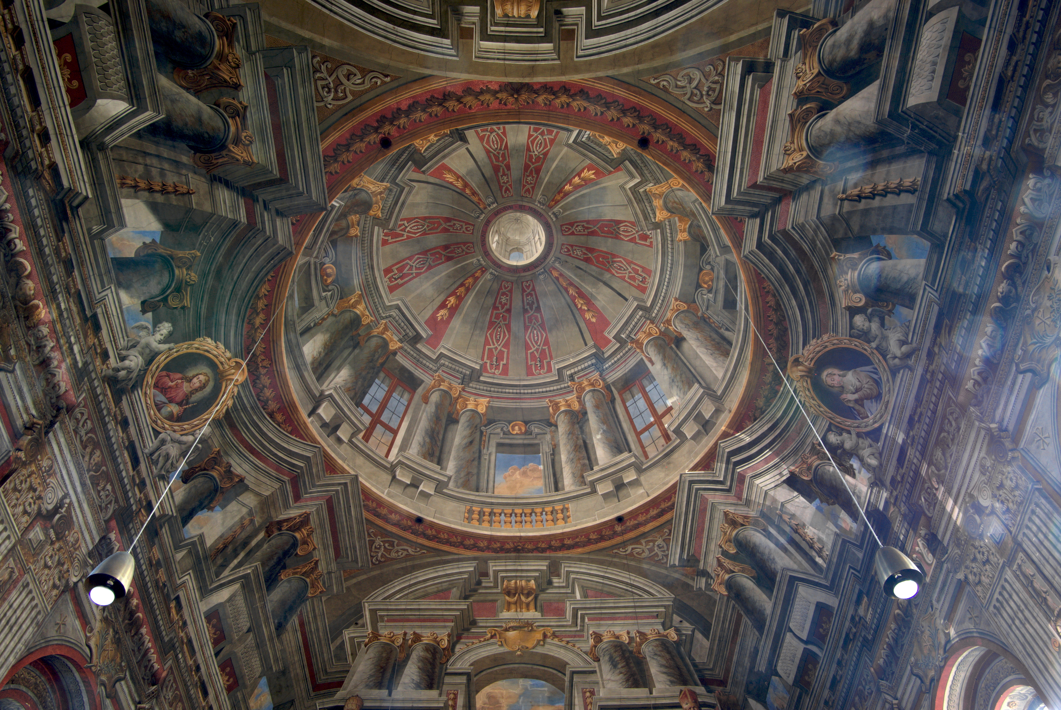 Germany, Wiesentheid, parish church St. Mauritius